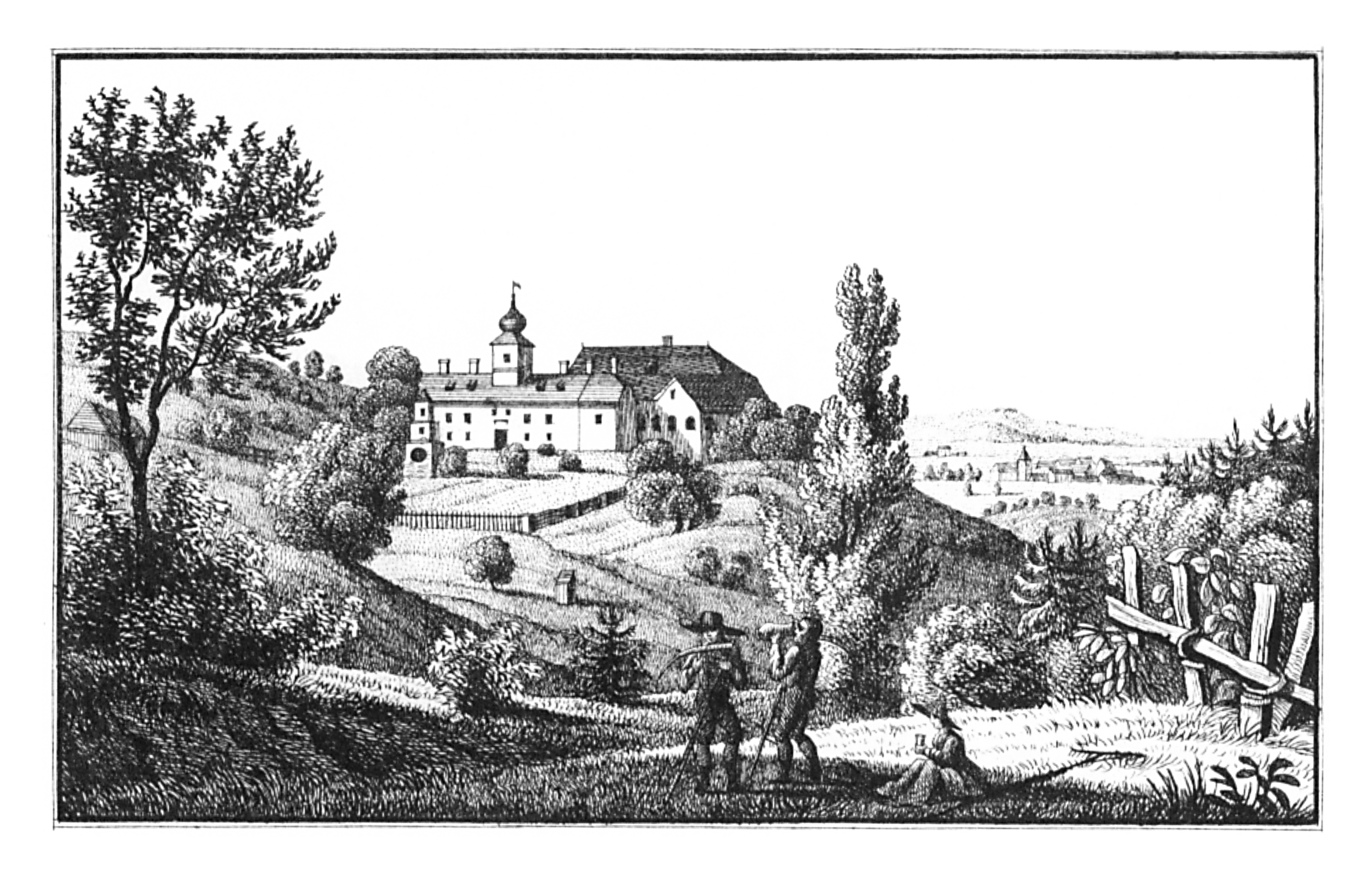 J. F. Kaiser - lithographirte Ansichten der Steyermärkischen Städte, Märkte und Schlösser, Graz 1824-1833 Joseph Franz Kaiser (1786–1859) Alternative names J. F. KaiserDescriptionAustrian printer and editorDate of birth/death 11 March 1786 19 September 1859Location of birth/death Graz (Styria) GrazAuthority control : Q1499963 VIAF: 30629353 ISNI: 0000 0000 3083 0153 LCCN: n87141671 GND: 129880159 NLP: A24960305 WorldCat creator QS:P170,Q1499963 . Scanprojekt Community Projektbudget 2012 This scan or this PDF-file was created within the GLAM-project Bookscanning, supported by Wikimedia Germany and Wikimedia Austria as a part of the community-project to capture books, documents and pictures which are not eligible to copyright or for which the copyright has expired. This document describes or depicts an object which is located in Austria today. Send requests for uncompressed scans to Hubertl. This work is in the public domain in its country of origin and other countries and areas where the copyright term is the author's life plus 100 years or fewer. You must also include a United States public domain tag to indicate why this work is in the public domain in the United States. This file has been identified as being free of known restrictions under copyright law, including all related and neighboring rights.